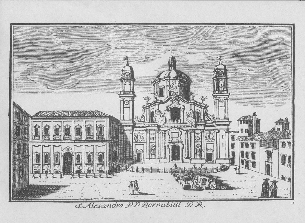 Marc'Antonio Dal Re (1697-1766), Sant'Alessandro church in Milan. This engraving is # 3 from a set of 88 Vedute di Milano ("Views of Milan") published by Del Re around 1745.